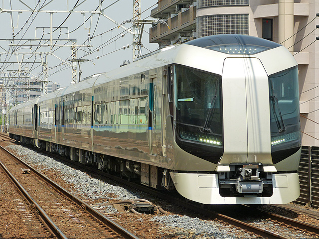 A pair of Tobu Railway 500 series "Revaty" three-car EMUs approaching Gotanno Station on the Tobu Skytree Line